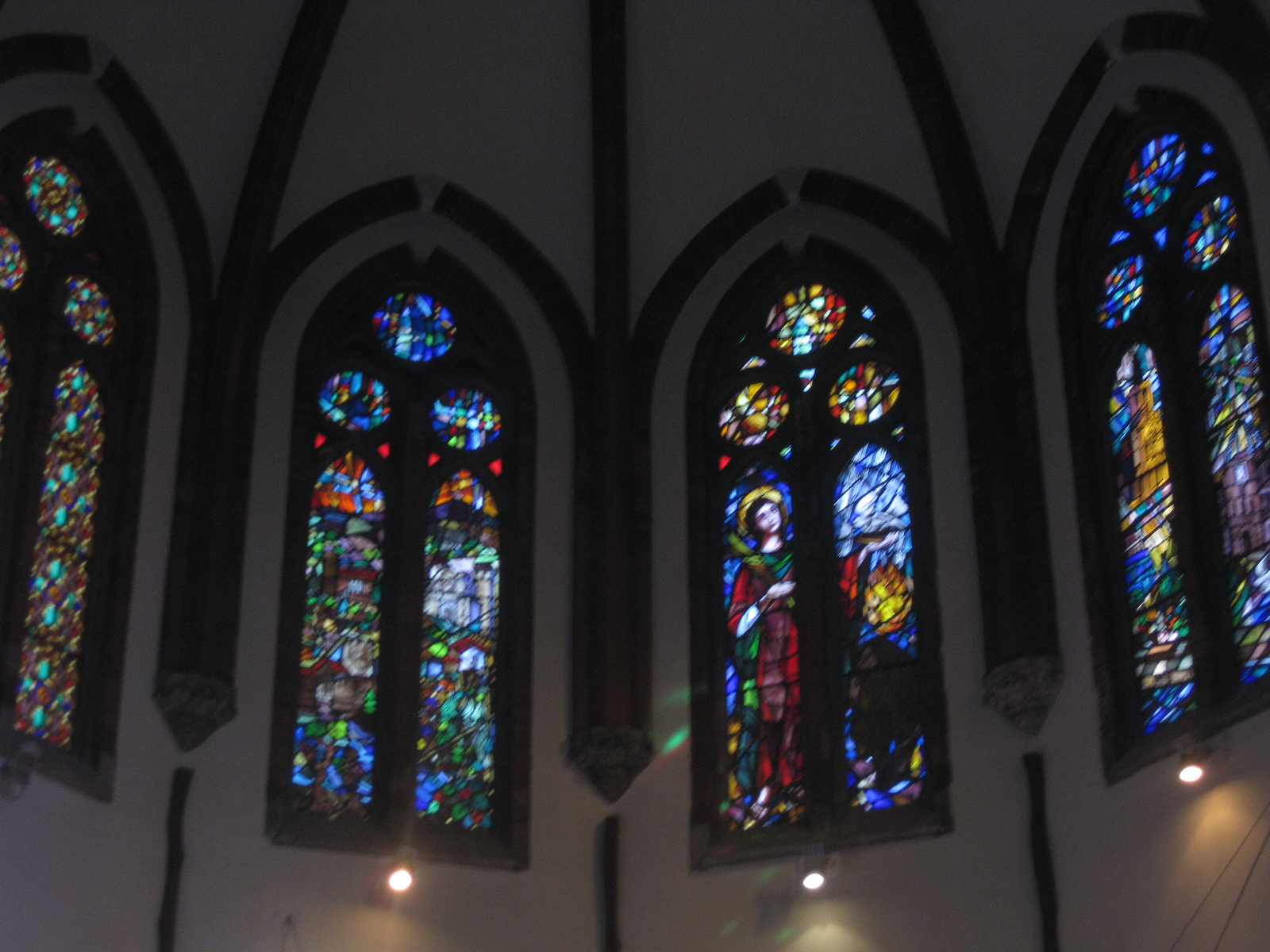 Vidrieras de la Iglesia Mayor